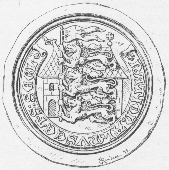 Seal of the National Museum of Denmark. Illustration from an article Fra den sidste Tid written by Erik Schiødte and published in Tidsskrift for Kunstindustri 1893.